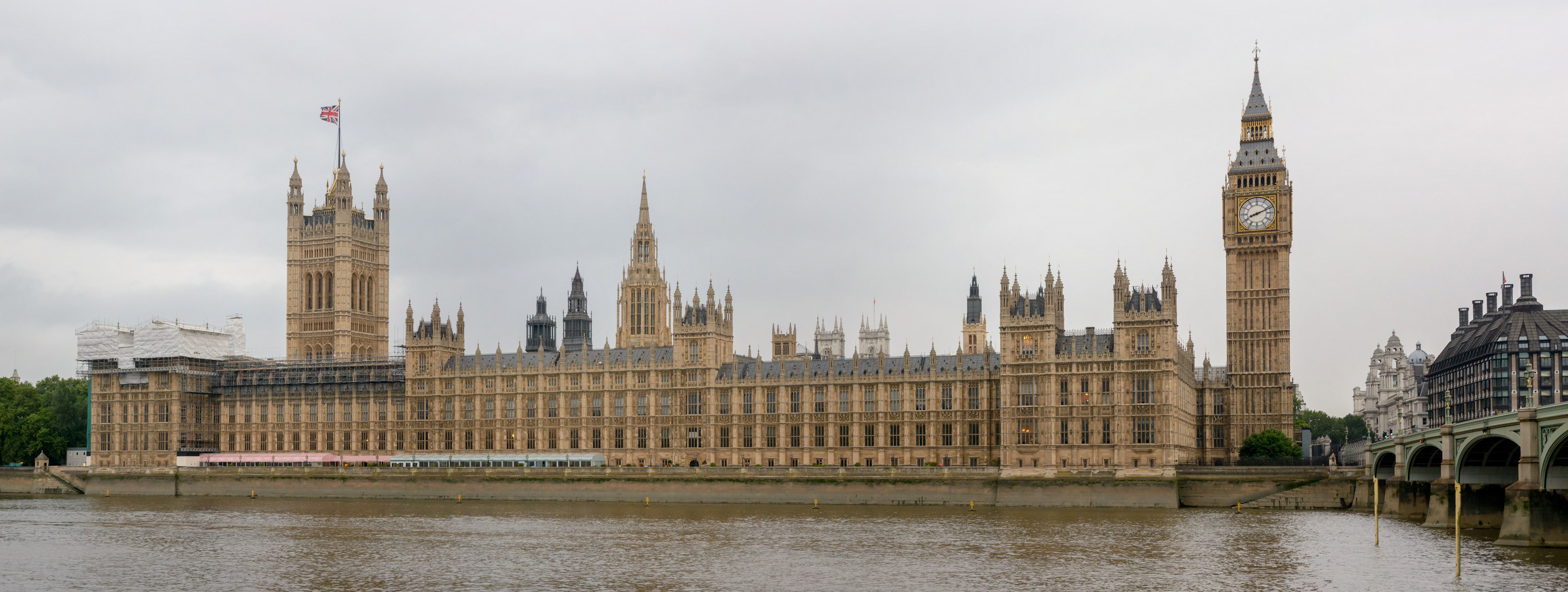 HOUSES OF PARLIAMENT THE PALACE OF WESTMINSTER Wikidata has entry Q62408 with data related to this building.